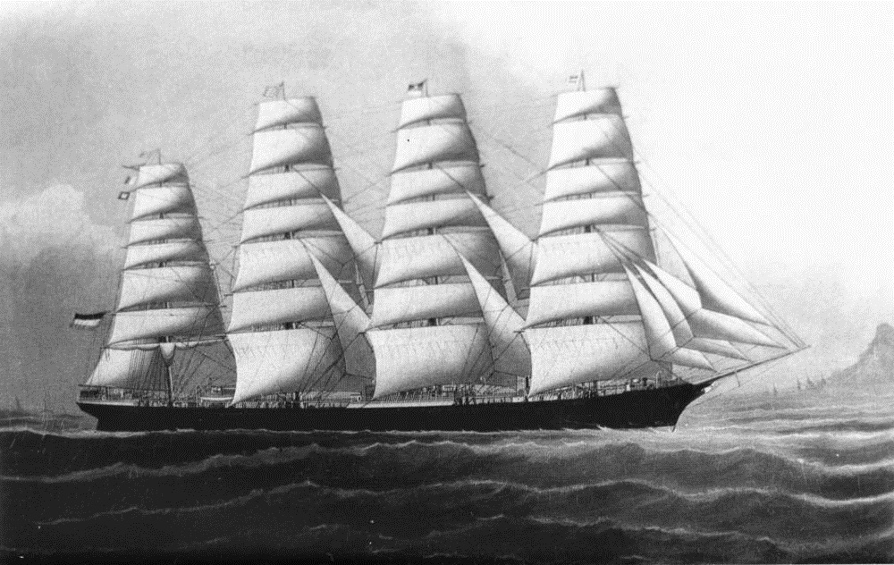 The German full rigged ship Peter Rickmers (built 1889 in Port Glasgow), Photo of a Painting. Publisher: John Oxley Library, State Library of Queensland Description: Digital format: image/jpeg ; Original format: copy print : b&w Identifier: Image number: 152302